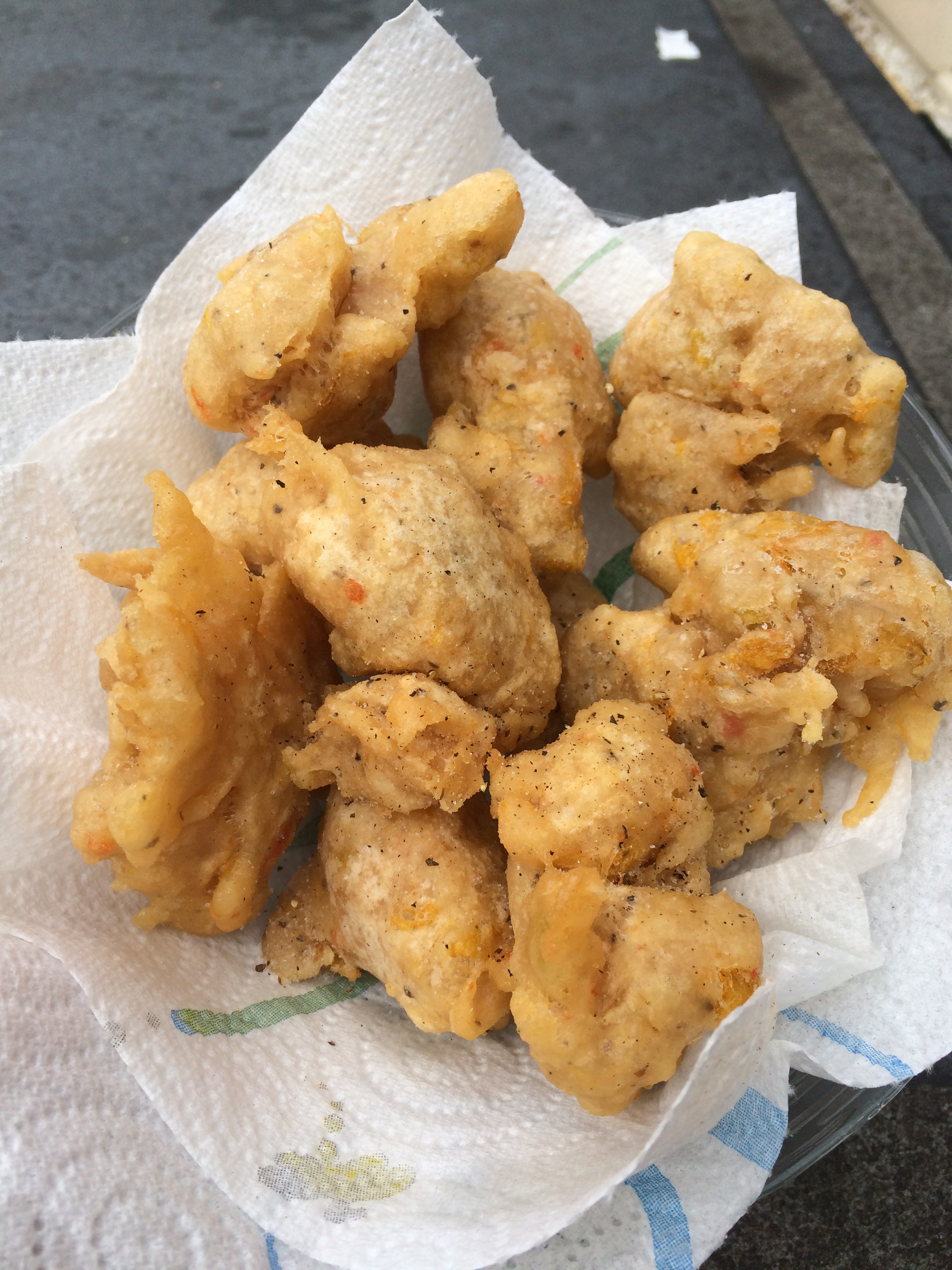 fritter of pumpkin flowers